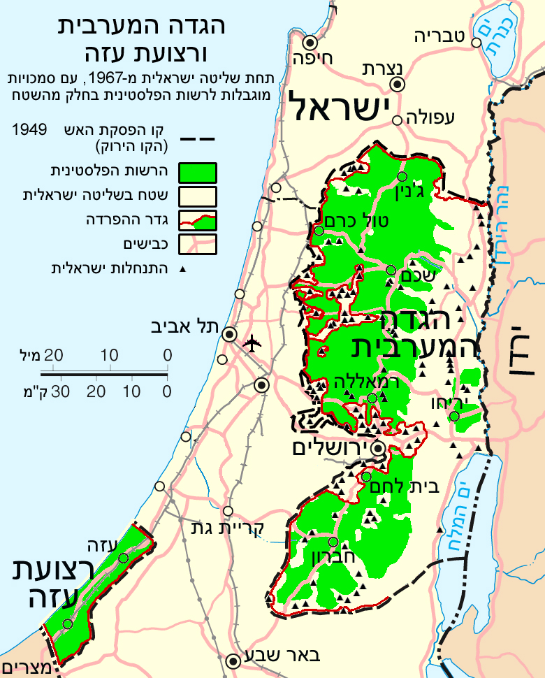 West Bank & Gaza Map 2007 (Settlements